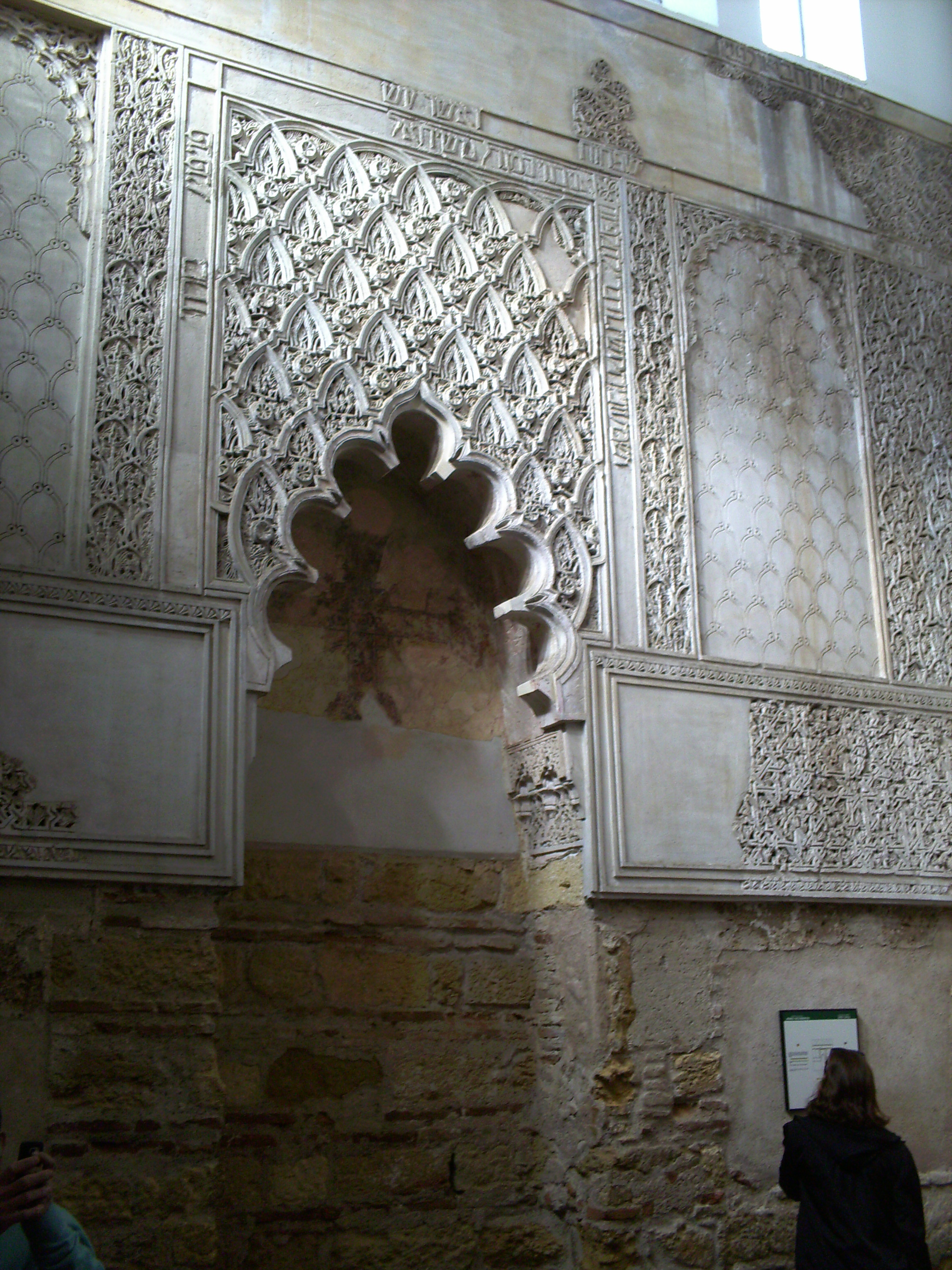 Córdoba Synagogue, in the Jewish Quarter of Córdoba, Spain built in 1315.